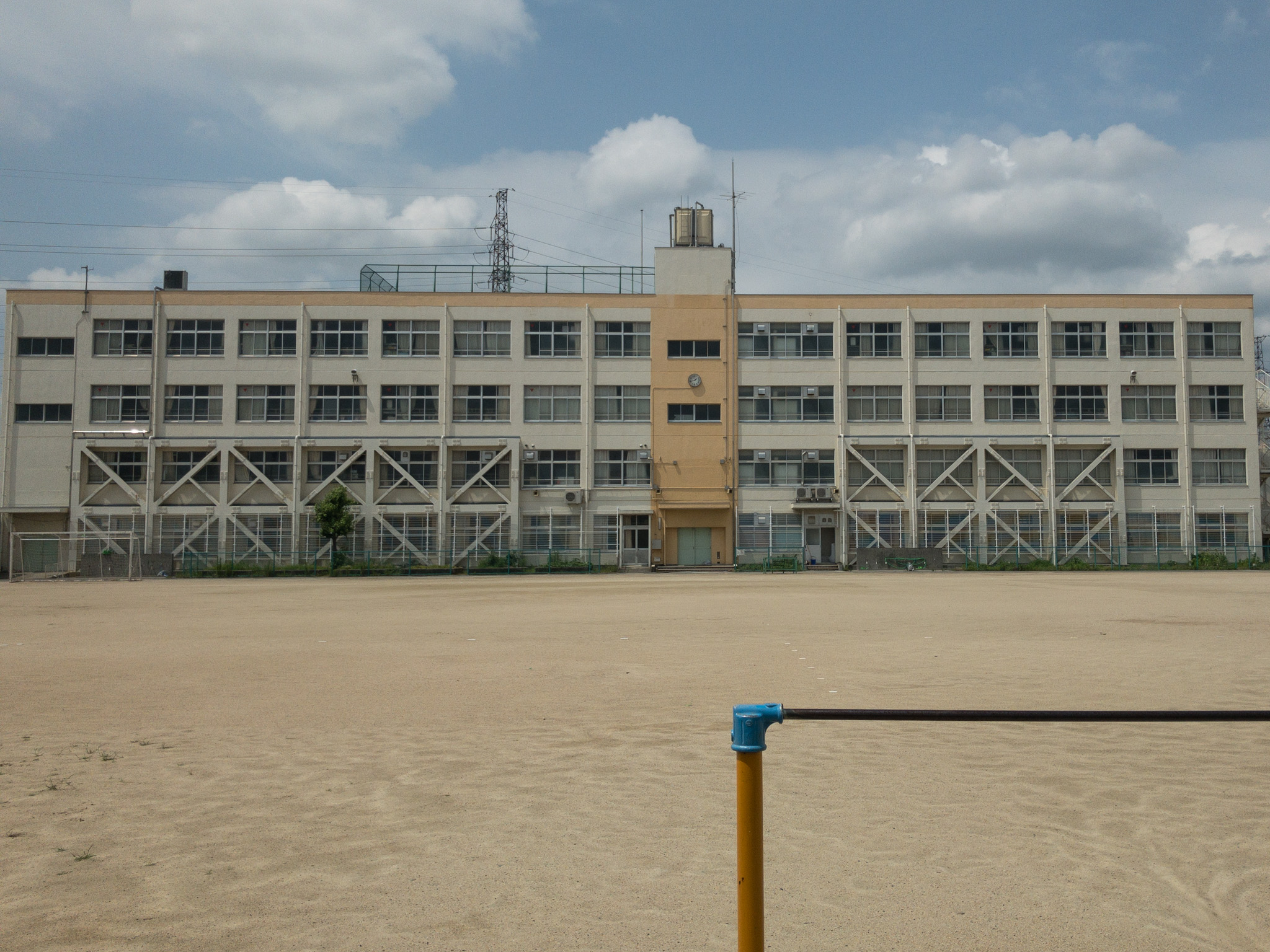 This picture shows a school building and school yard